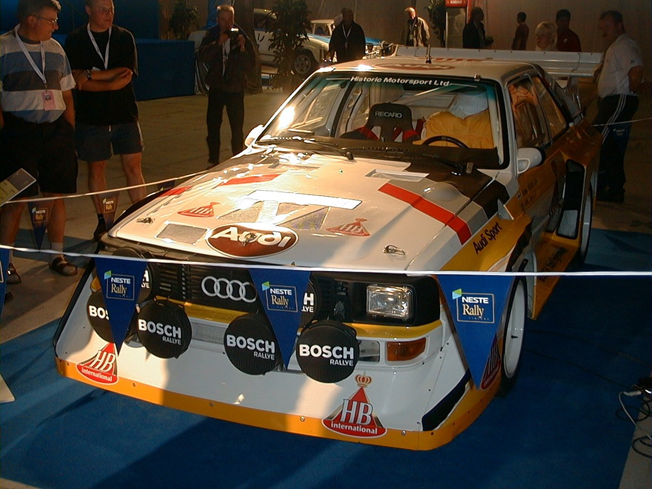 Audi Quattro S1 used by Hannu Mikkola to test for the 1985 1000 Lakes Rally (Rally Finland). The car is now owned by Juha Kankkunen.